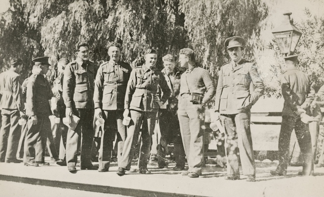 Group photo of some of the members of the Australian Army's 2/1st Heavy Battery. Bombadier Tom Uren (third from the left, holding a tin mug and a newspaper) was a minister in the Whitlam Government.